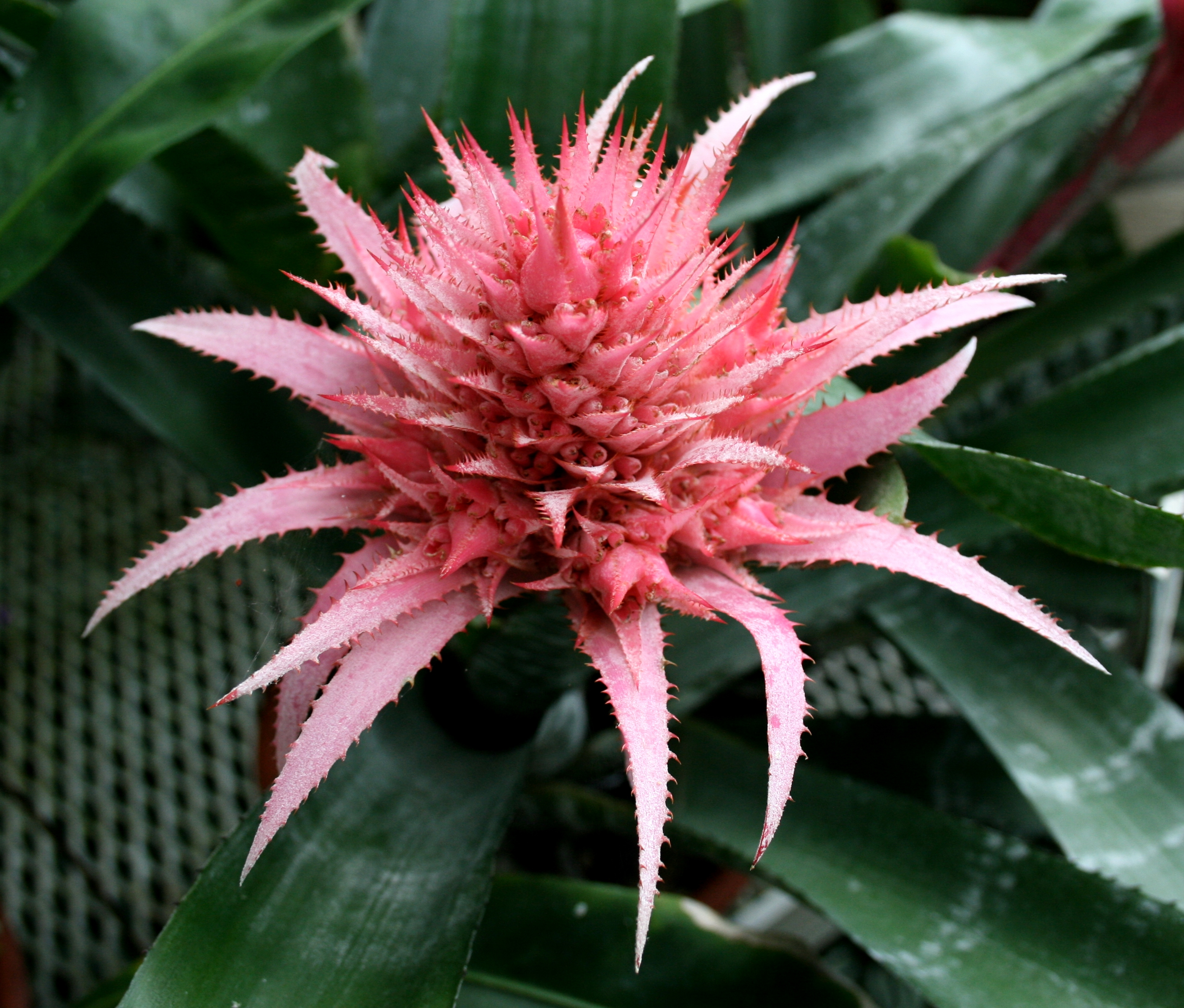 Aechmea fasciata